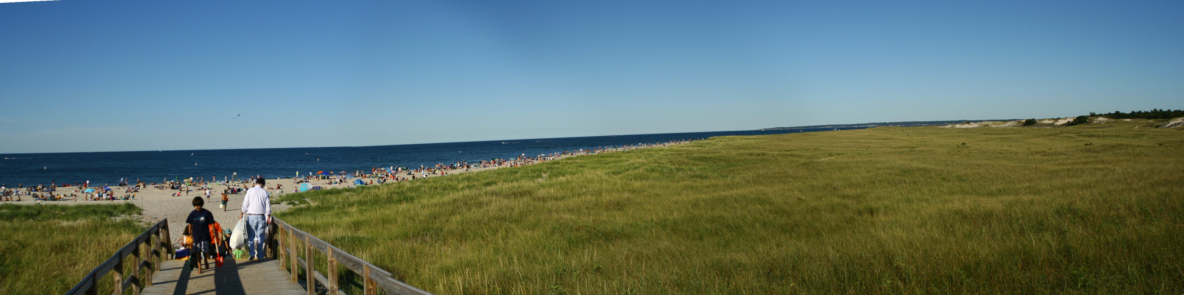 a panorama of Crance Beach